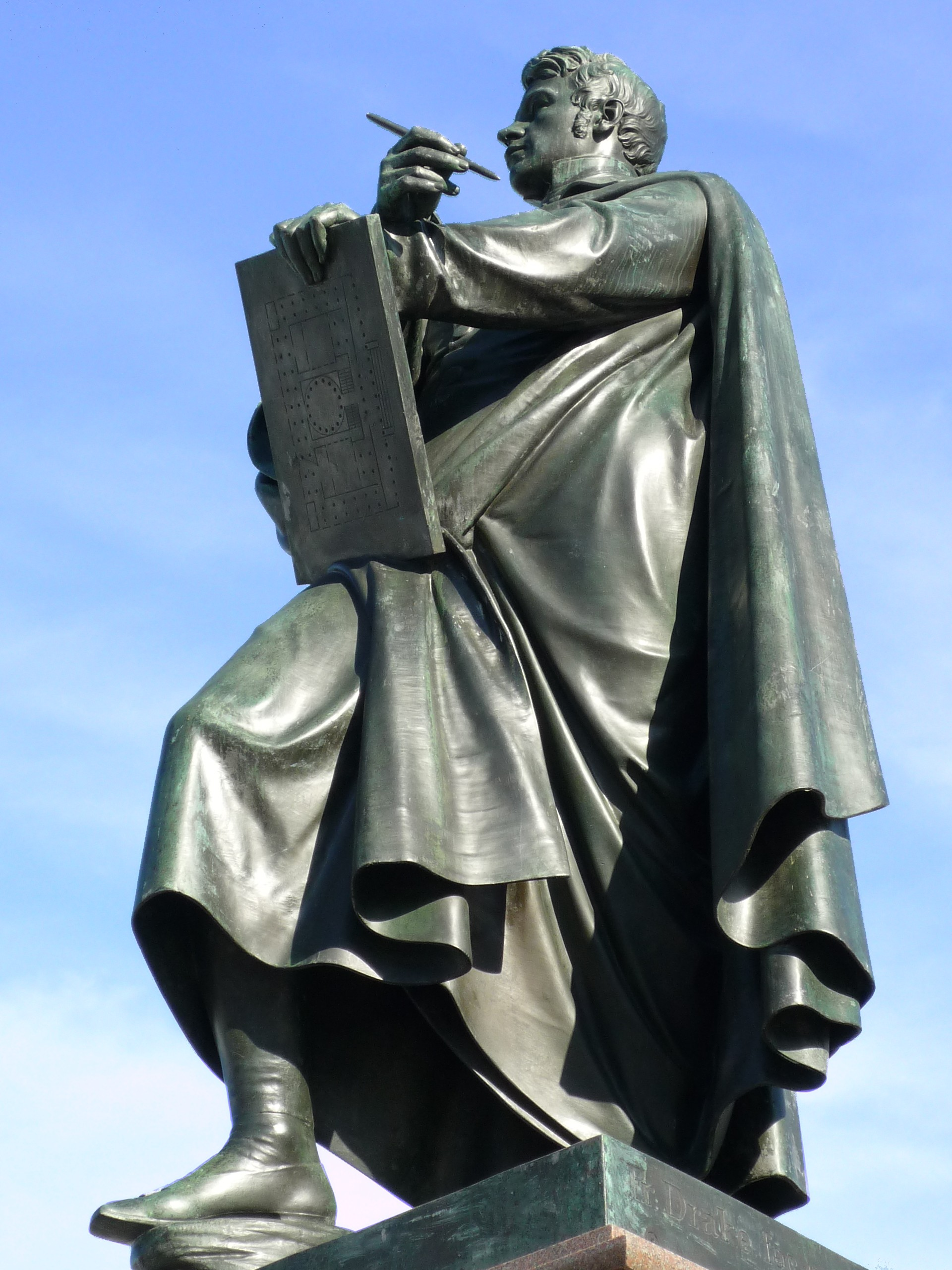 "Schinkelplatz" in Berlin-Mitte. Statue of Karl Friedrich Schinkel. The sculptor was Friedrich Drake.